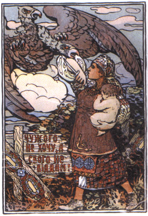 The Ukrainian propaganda leaflets, 1918